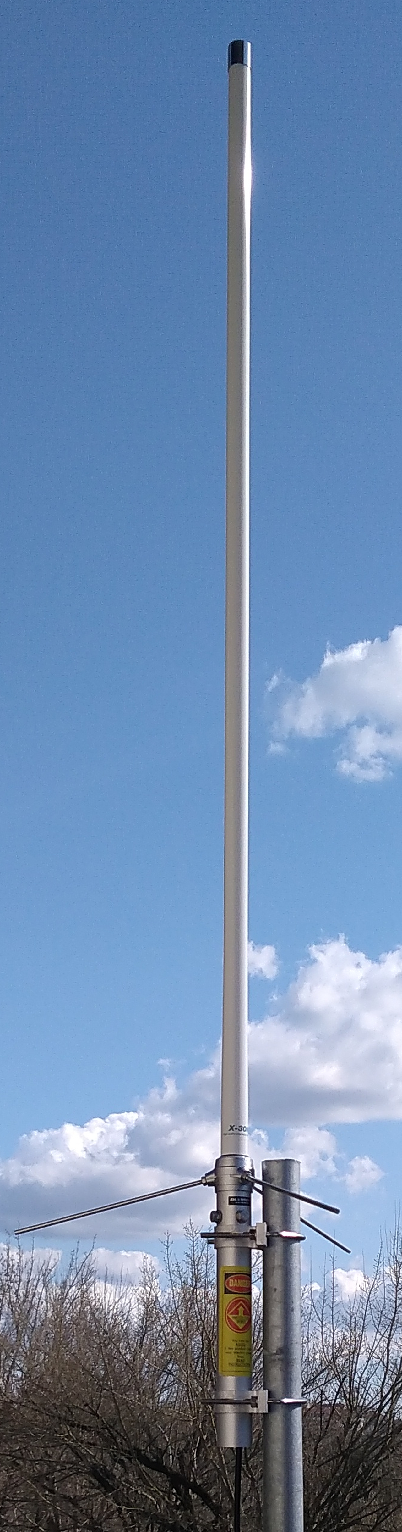 This is a Diamond X-30 antenna, an example of a collinear antenna typically found in amateur radio base stations operating in the 2 meters and the 70 centimeters amateur radio bands.